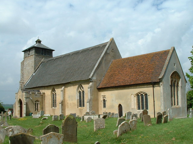 The Church of St Peter in Great Livermere, Suffolk, England. A Grade I listed medieval church.